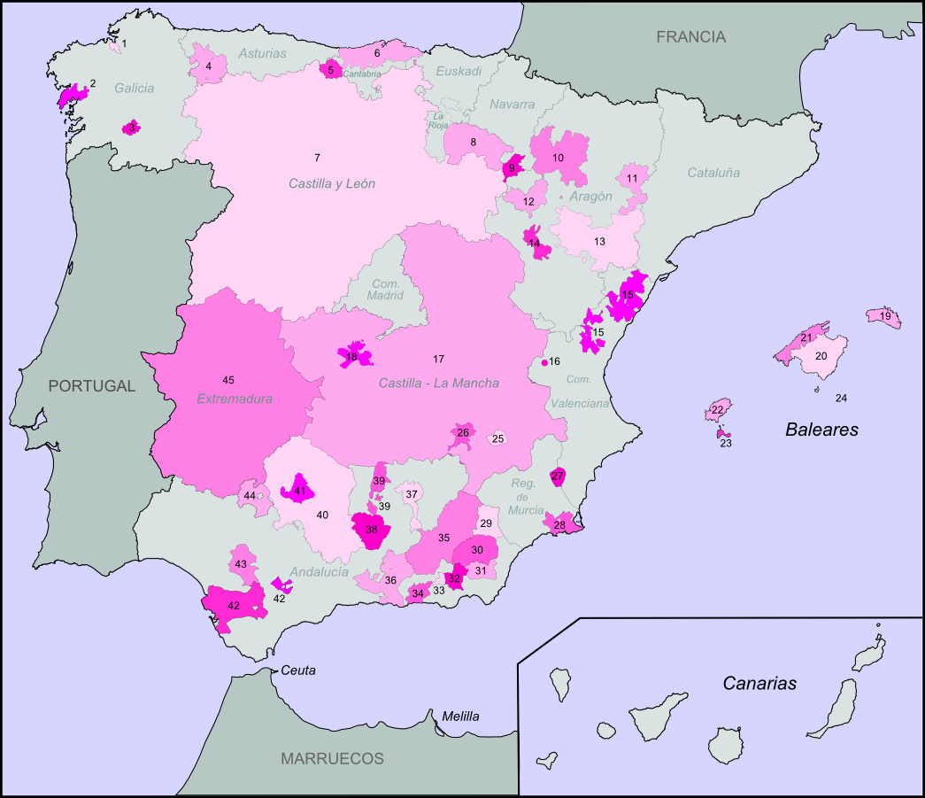 Wine regions of Spain classified as Vino de la Tierra (equivalent to vin de pays and country wine), in April 2009. The area of Viñedos de Españo, which spans over several autonomous communities is not shown. Leyenda/key Betanzos Barbanza e Iria Val do Miño-Ourense (Valle del Miño-Orense) Cangas Liébana Costa de Cantabria Castilla y León Valles de Sadacia Ribera del Queiles Ribera del Gállego-Cinco Villas Valle del Cinca Valdejalón Bajo Aragón Ribera del Jiloca Castelló El Terrerazo Castilla (all areas of Castile-La Mancha) Gálvez Illa de Menorca Mallorca Serra de Tramuntana-Costa Nord Eivissa (Ibiza) Formentera Illas Balears (Not represented, covers all areas of the Balearics) Pozohondo Sierra de Alcaraz Abanilla Campo de Cartagena Norte de Almería Sierras de Las Estancias y Los Filabres Desierto de Almería Ribera del Andarax Laujar-Alpujarra Cumbres del Guadalfeo Altiplano de Sierra Nevada Laderas del Genil Torreperogil Sierra Sur de Jaén Bailén Córdoba (also covers the Villaviciosa de Córdoba area) Villaviciosa de Córdoba Cádiz Los Palacios Sierra Norte de Sevilla Extremadura Viñedos de España (Not represented, includes all areas of Navarra, Aragón, Catalonia, the Balearics, Valencian Community, Castile-La Mancha, Community of Madrid, Extremadura, Region of Murcia, Andalusia and the Canaries)